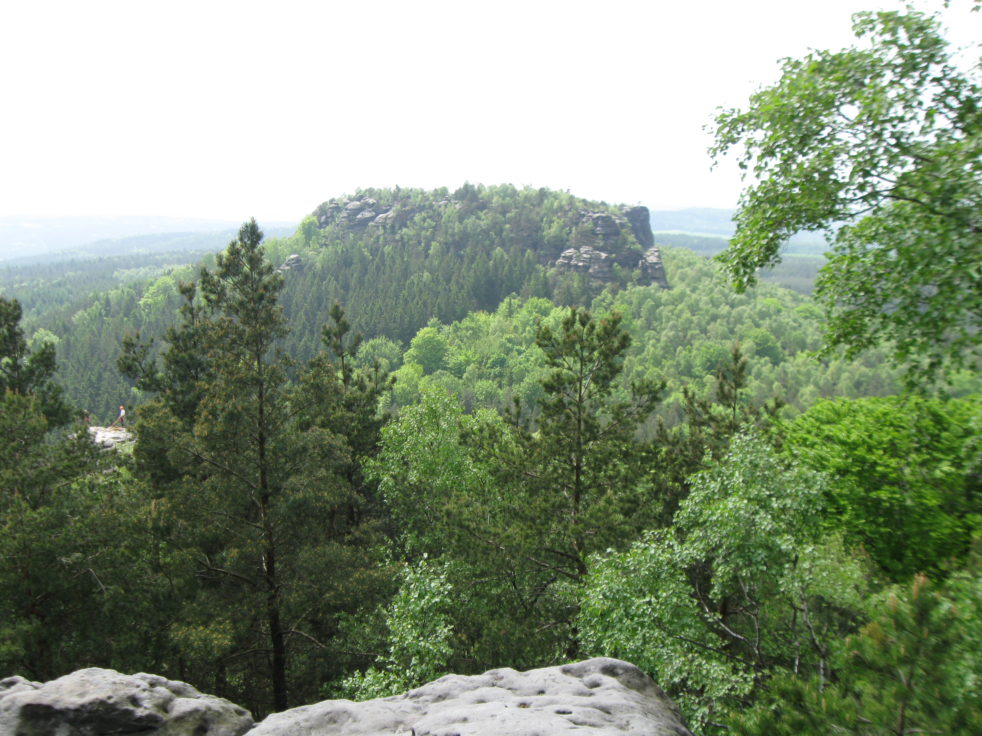 The mountain Gohrisch in Saxonian Switzerland